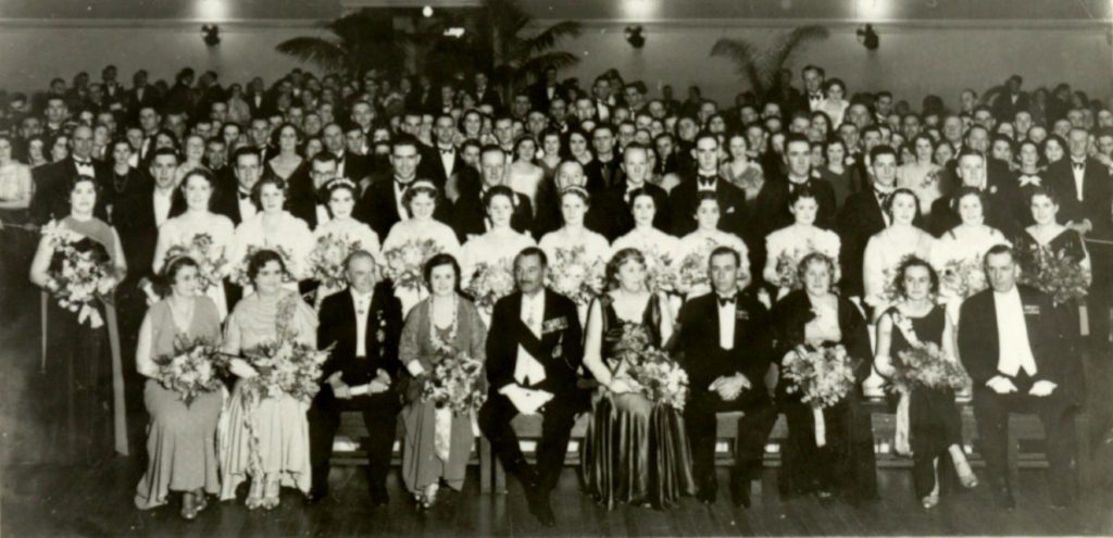 The crowd of 2000 pose for a photograph at the inaugural Police Ball, Brisbane City Hall, 1 August 1934. In the photo are the Queensland Governor Leslie Wilson, Chief Justice and Deputy Governor James Blair, Minister for Home Affairs Ned Hanlon, and policewoman Eileen O'Donnell